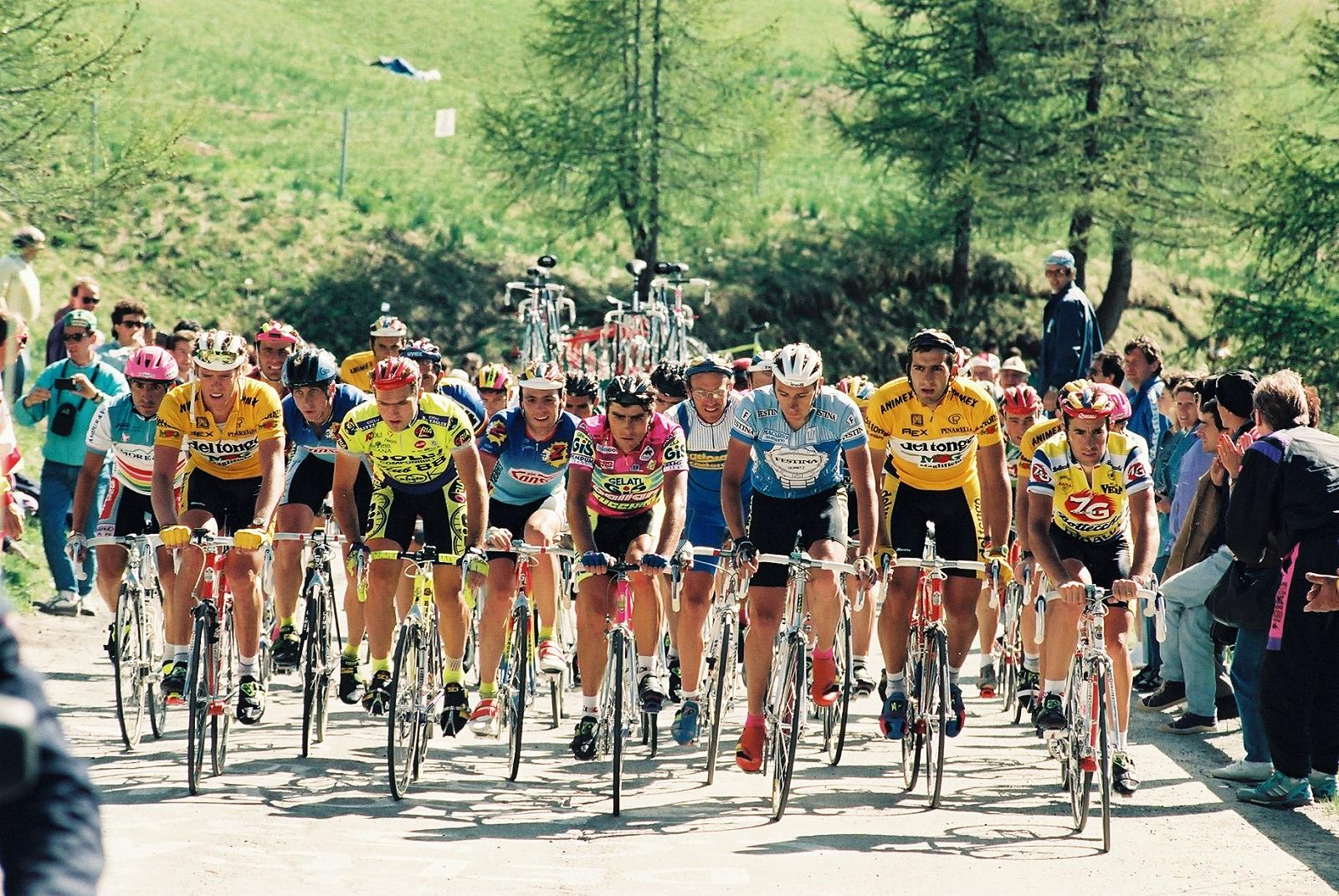 Riders in the 1991 Giro d'Italia climbing Sestriere on stage 13, Savigliano-Sestriere, 192 km. Included in the group are Mario Cipollini, Greg LeMond, Laurent Fignon and Franco Ballerini.